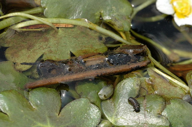 Picture taken in Commanster, Belgian High Ardennes . Species: Lepidostoma hirtum larva